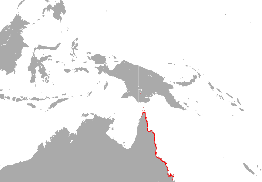 Coastal Tomb Bat (Taphozous australis) range